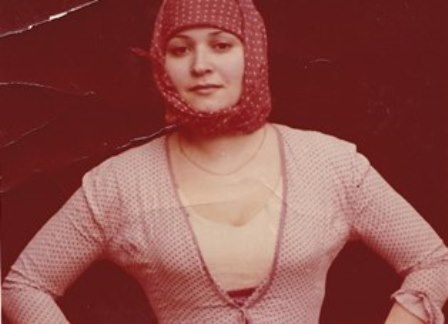 Temina Tuaeva